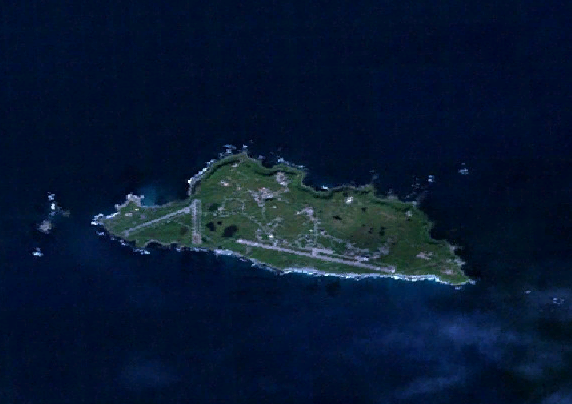 Shemya Island, Alaska - NASA NLT Landsat 7 (Visible Color) Satellite Image